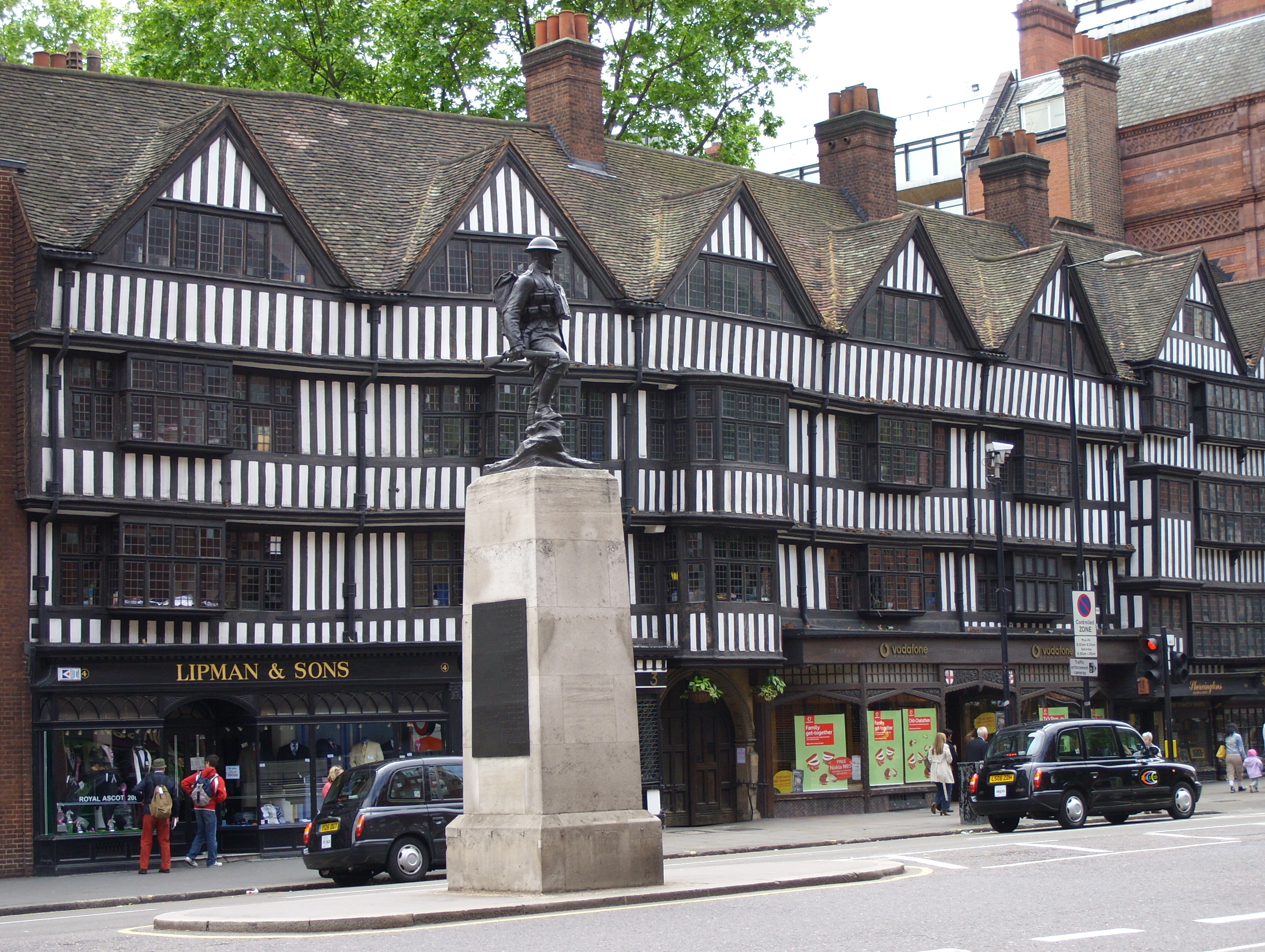 The Royal Fusiliers monument and Staple Inn, High Holborn, London